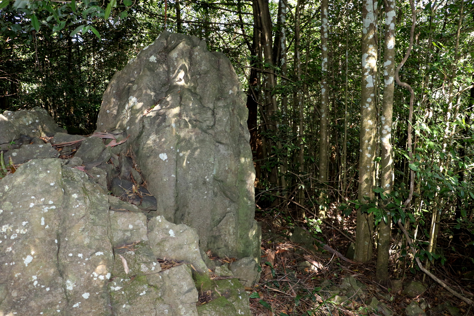 Blue Mountains Basalt, Mount Tomah with rainforest dominated by Doryphora sassafras